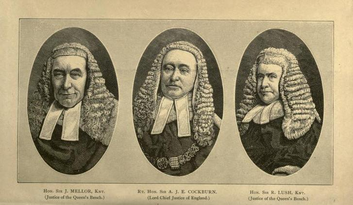 Portraits of the three judges who presided at the criminal trial for perjury of the Tichborne Claimant, aka Thomas Castro or Arthur Orton